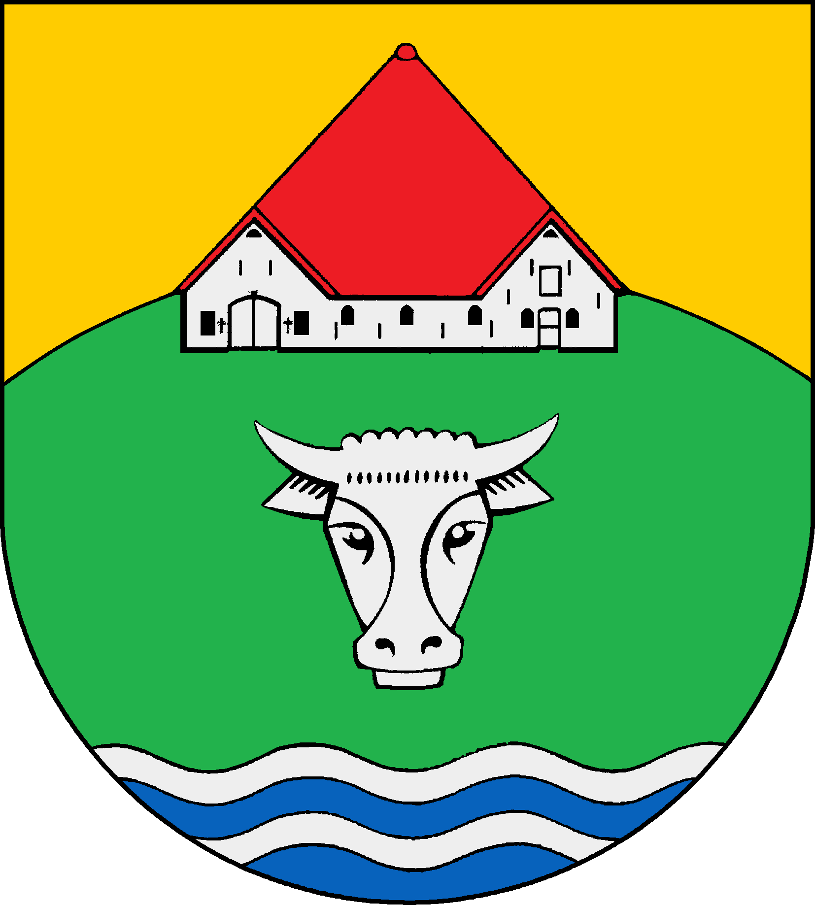 Coat of arms of the municipality Witzwort in Schleswig-Holstein, Germany.